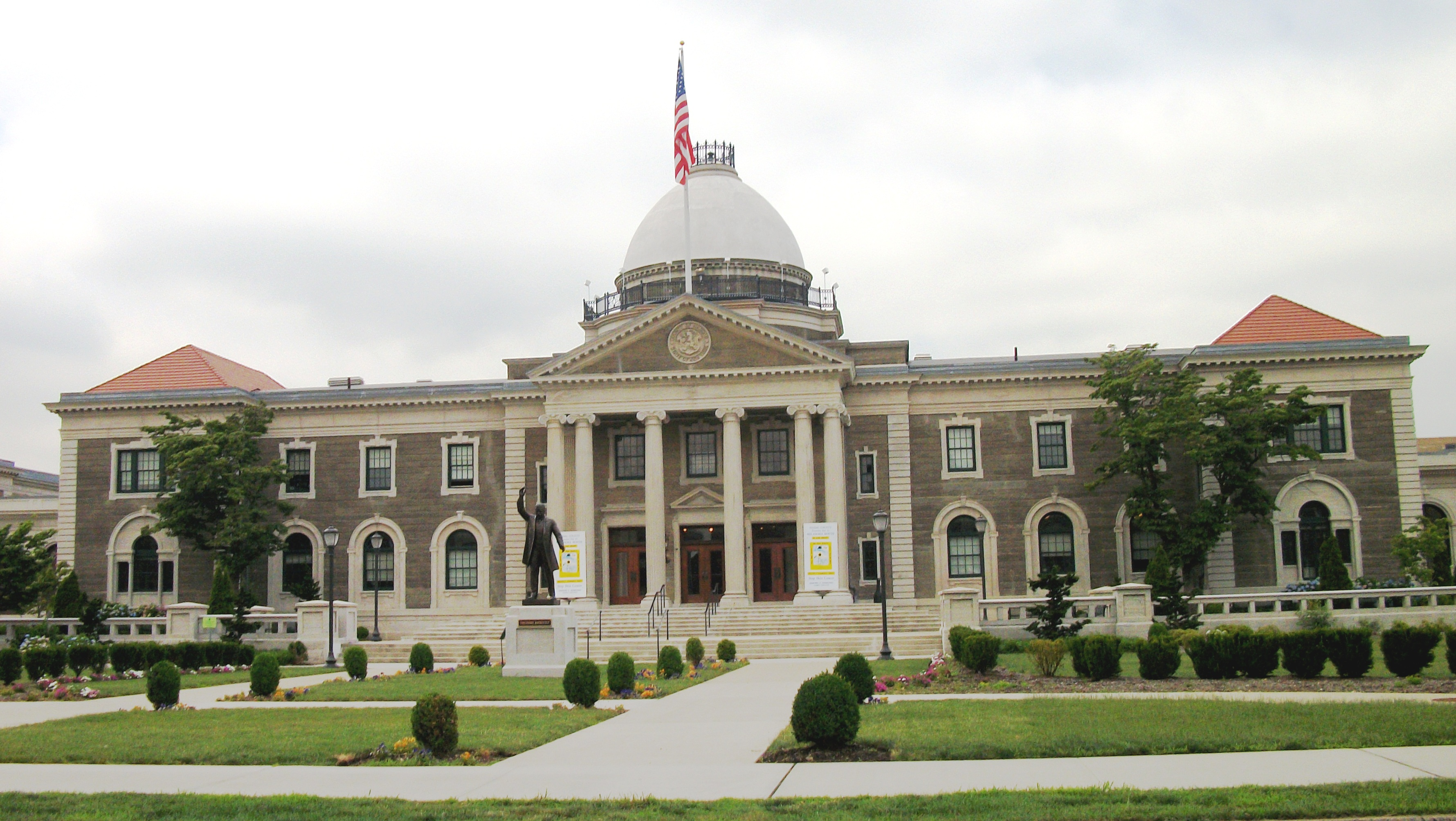 The Old Nassau County Court House in Garden City, New York near Mineola, New York.